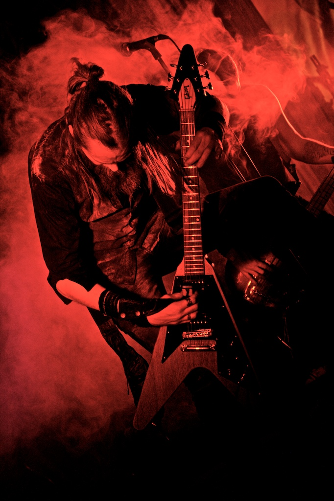 Sólstafir at Eistnaflug 2009 (July, 9).